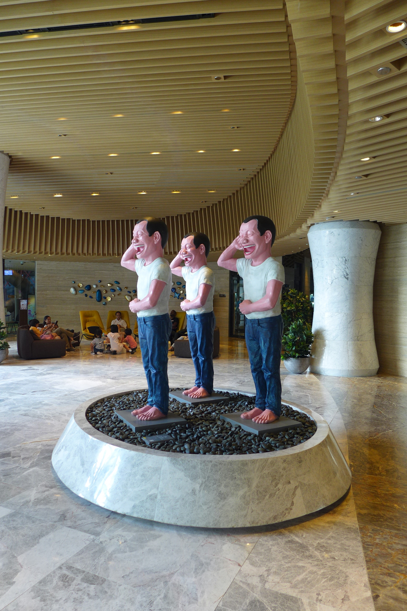 Double Club Comtemporary Terracotta Warriors No8